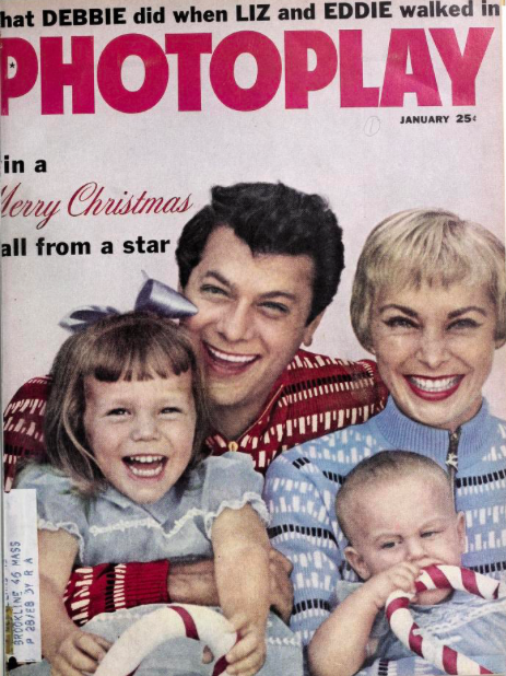 January 1960 Photoplay cover featuring Tony Curtis, Janet Leigh, and children Kelly and Jamie Lee Curtis.